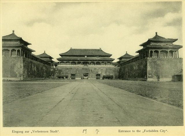 old photo from China 1900-1903, (view N) - Meridian Gate, see the file's name for detail.